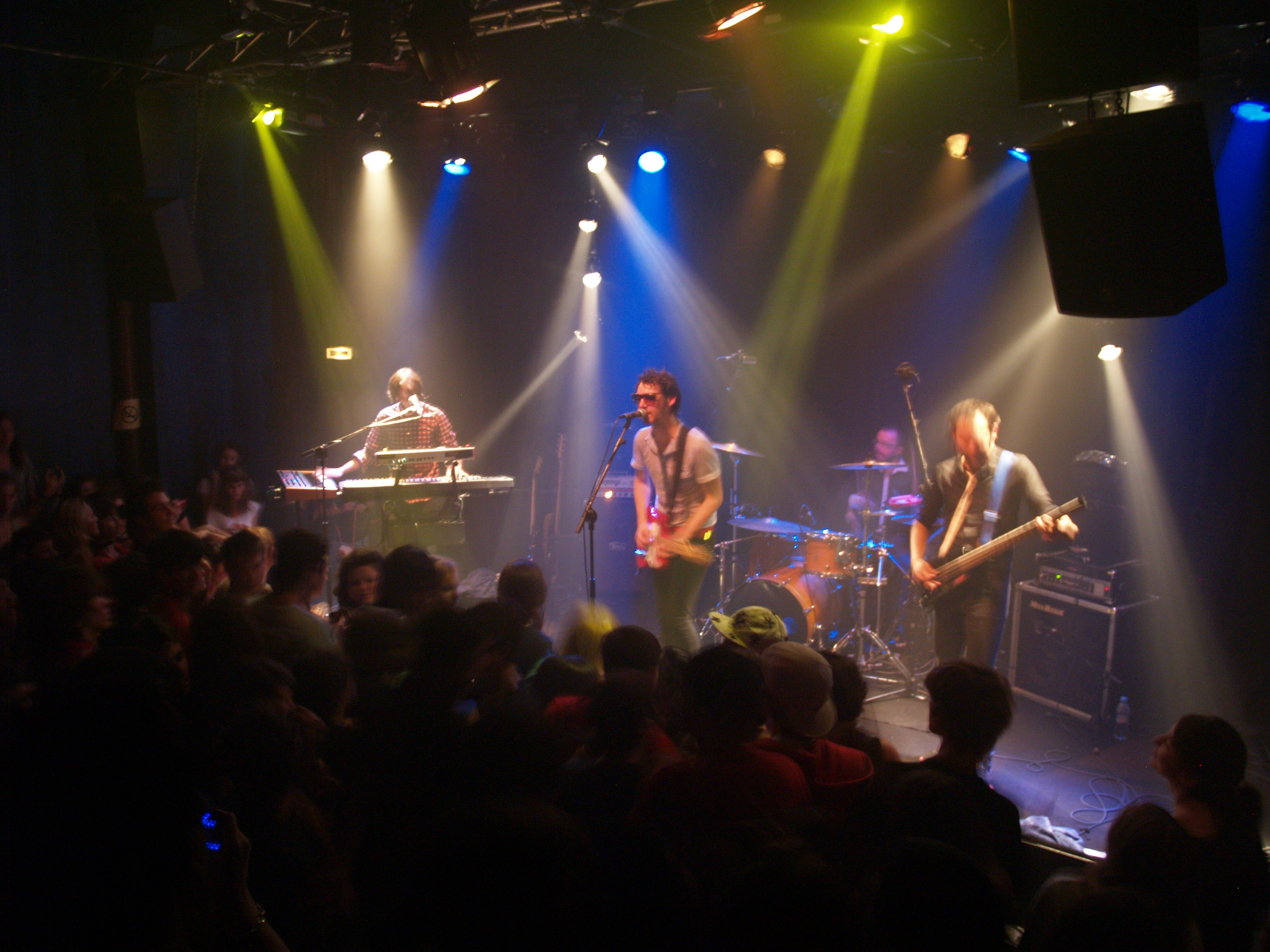 The french band Pony Pony Run Run during the concert in Arles in 2009.